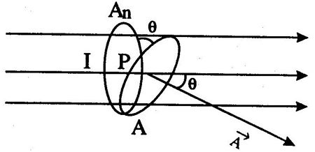 current density